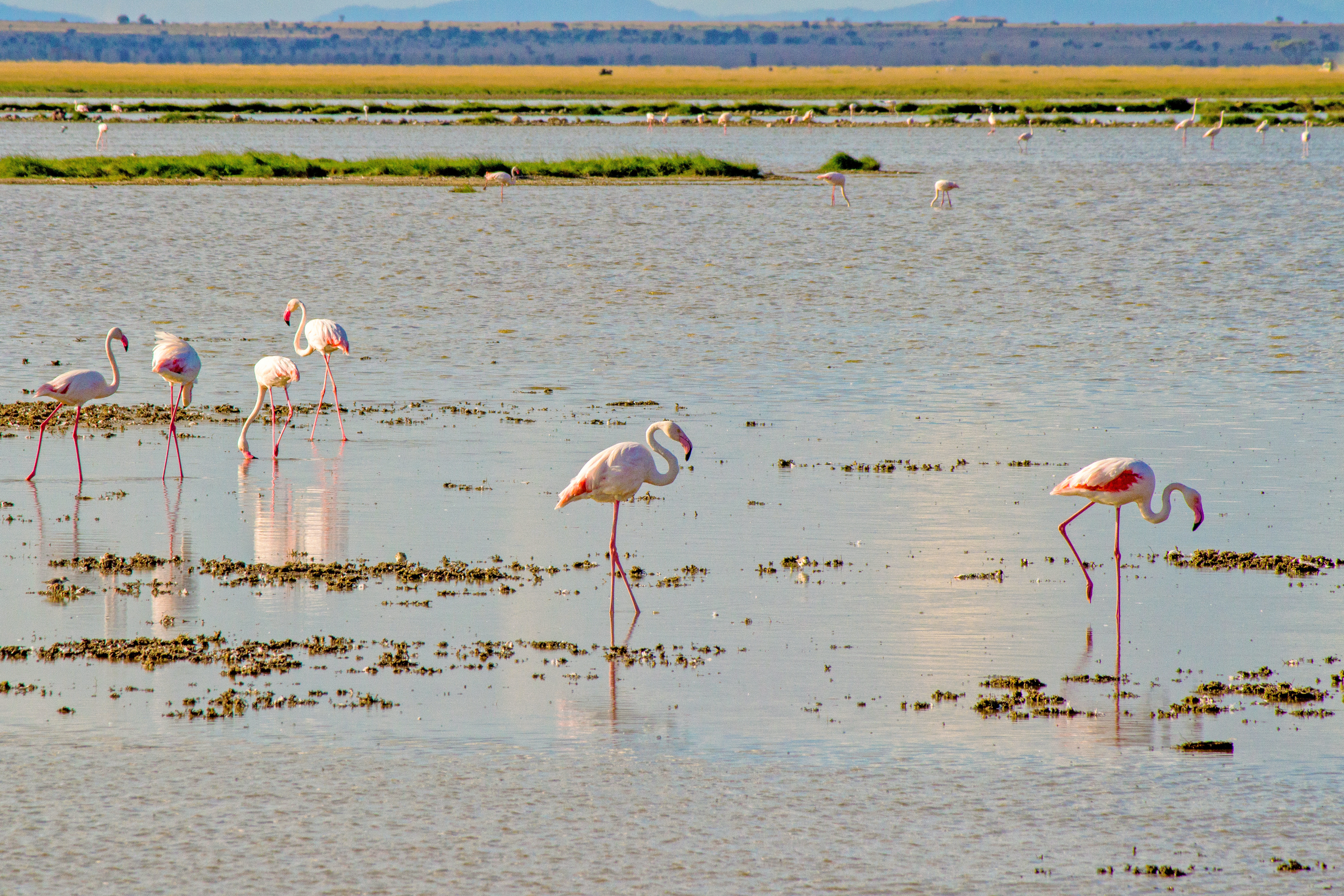 Greater Flamingos Phoenicopterus roseus, Lake Amboseli, border of Kenya and Tanzania.